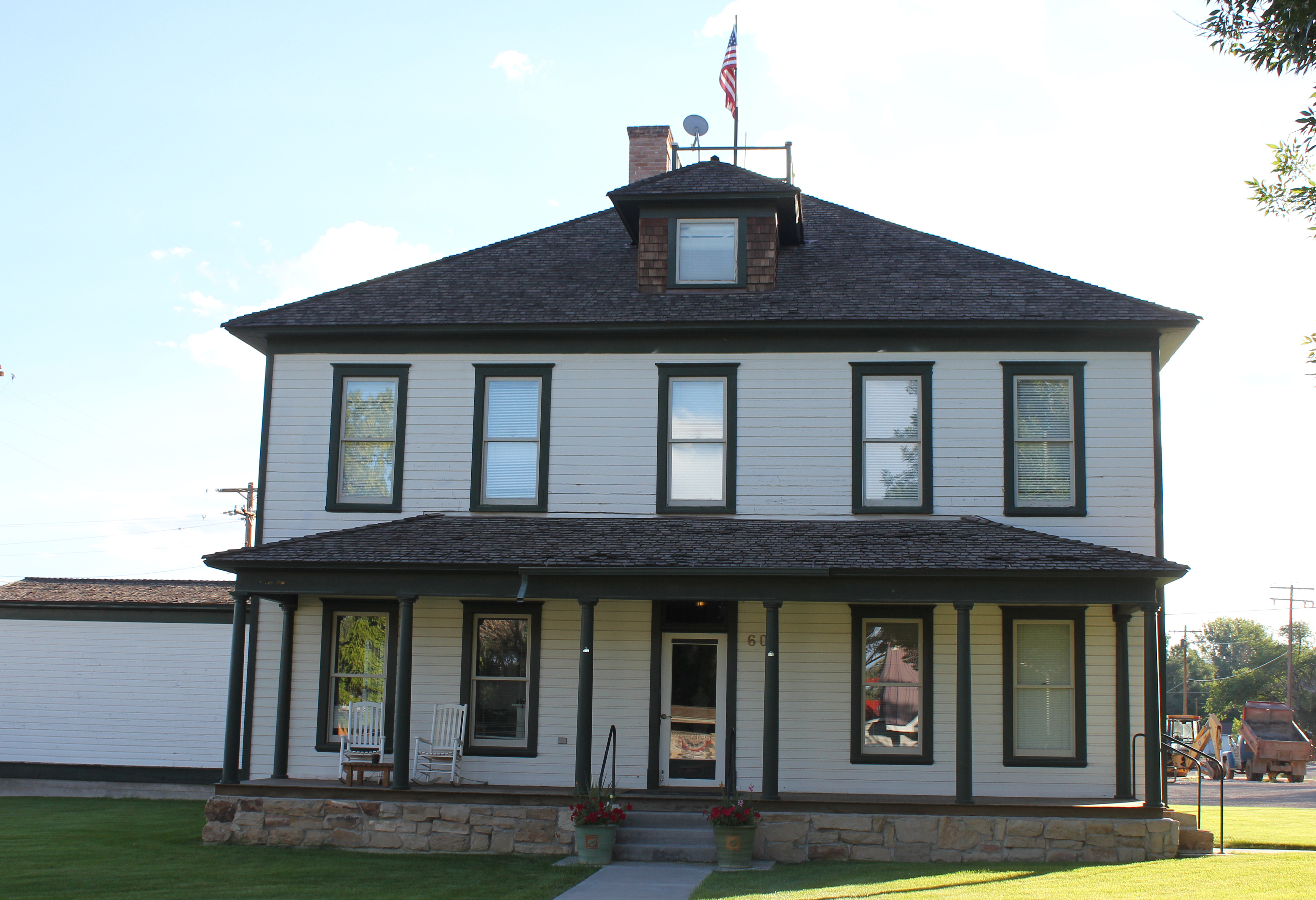 The U.S. Bureau of Reclamation Project Office Building, located at 601 North Park Avenue in Montrose, Colorado. The property, also sometimes called the Uncompahgre Valley Water Users Association Office, is listed on the National Register of Historic Places. It was built in 1905.